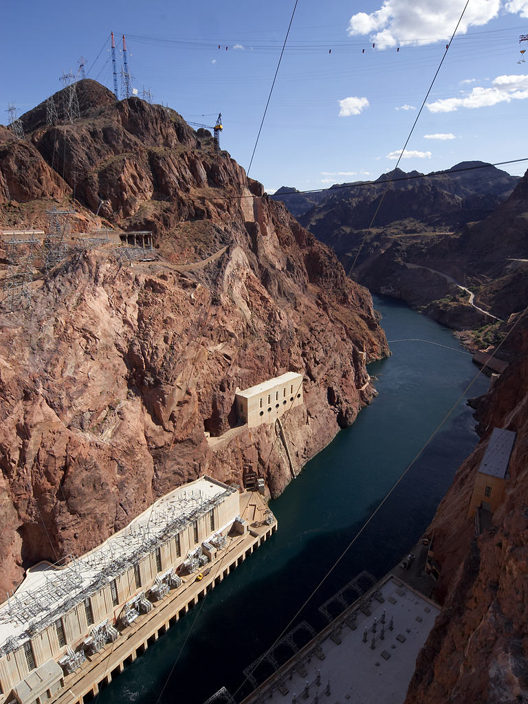 Downstream from Hoover Dam, showing the river, power stations, and power lines. Photographer: Jon Sullivan